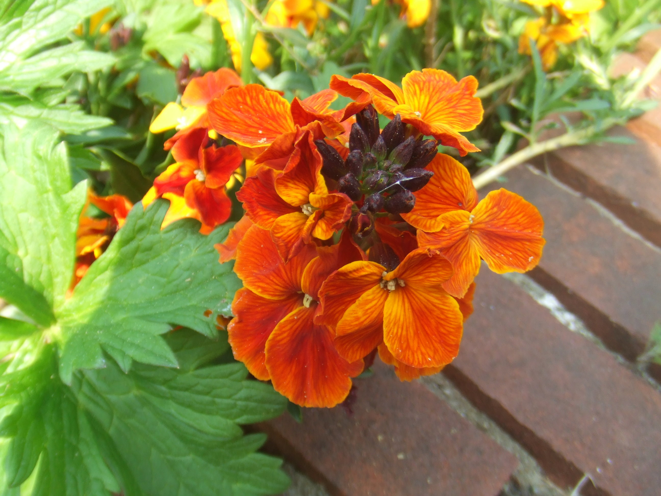 Erysimum cheiri, picture taken at the Botanische Tuin TU Delft, Delft, The Netherlands